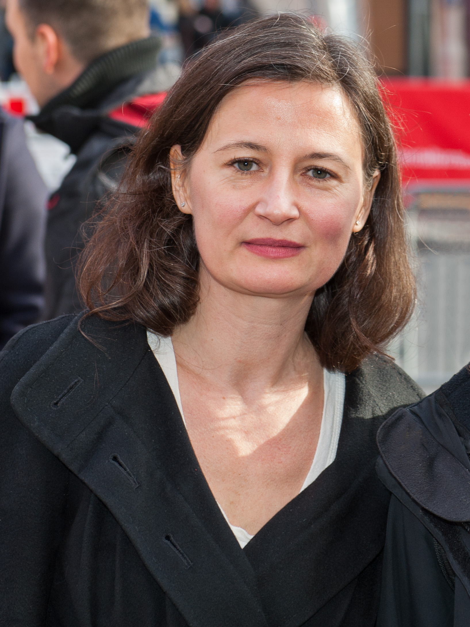 Danish director Pernille Fischer Christensen